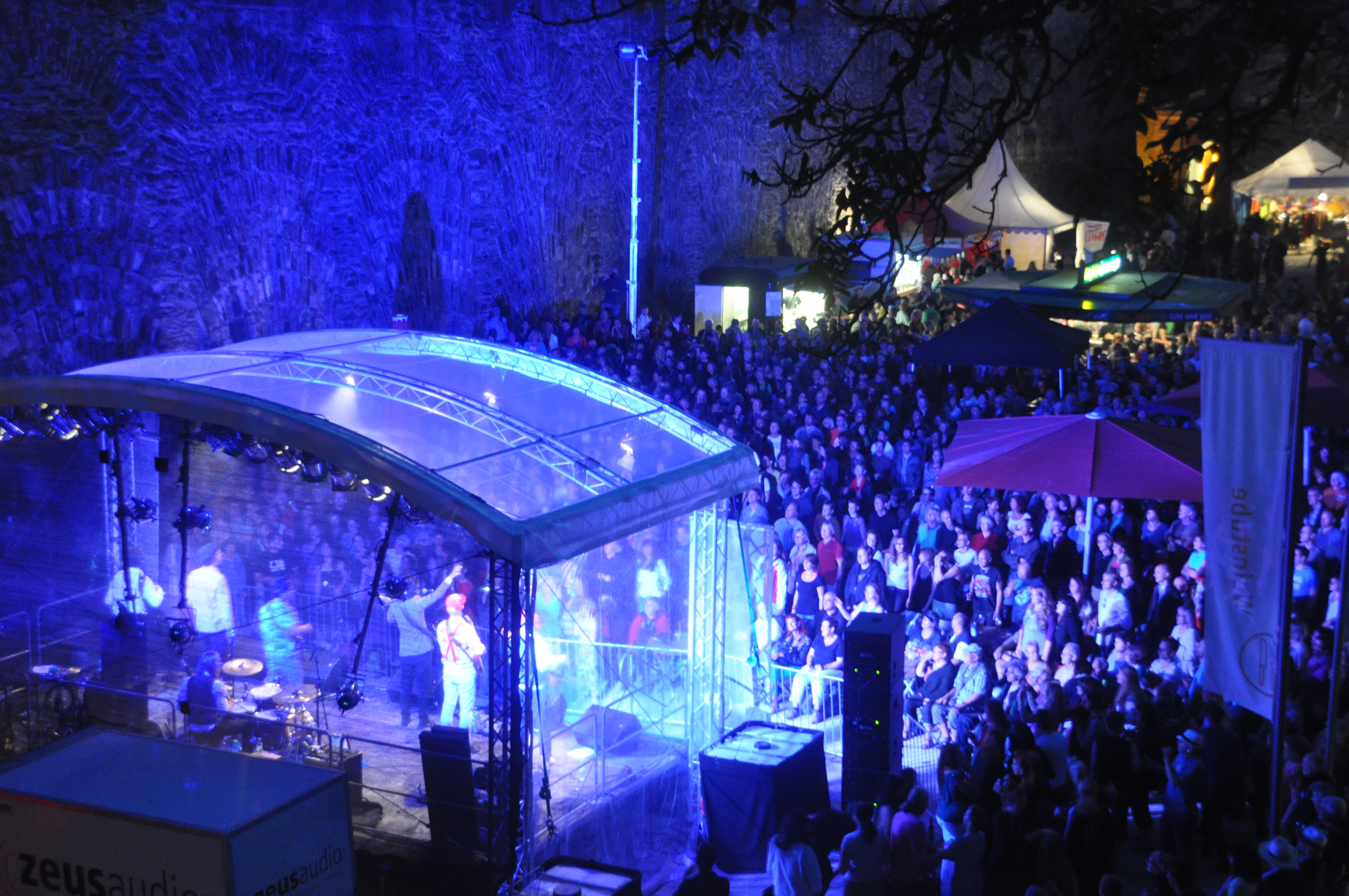 Faela! (Argentina, Bosnia, Chile, Sweden), appearence at the 11th world music festival "Horizonte" 2013 at the fortress Ehrenbreitstein, Koblenz, Germany